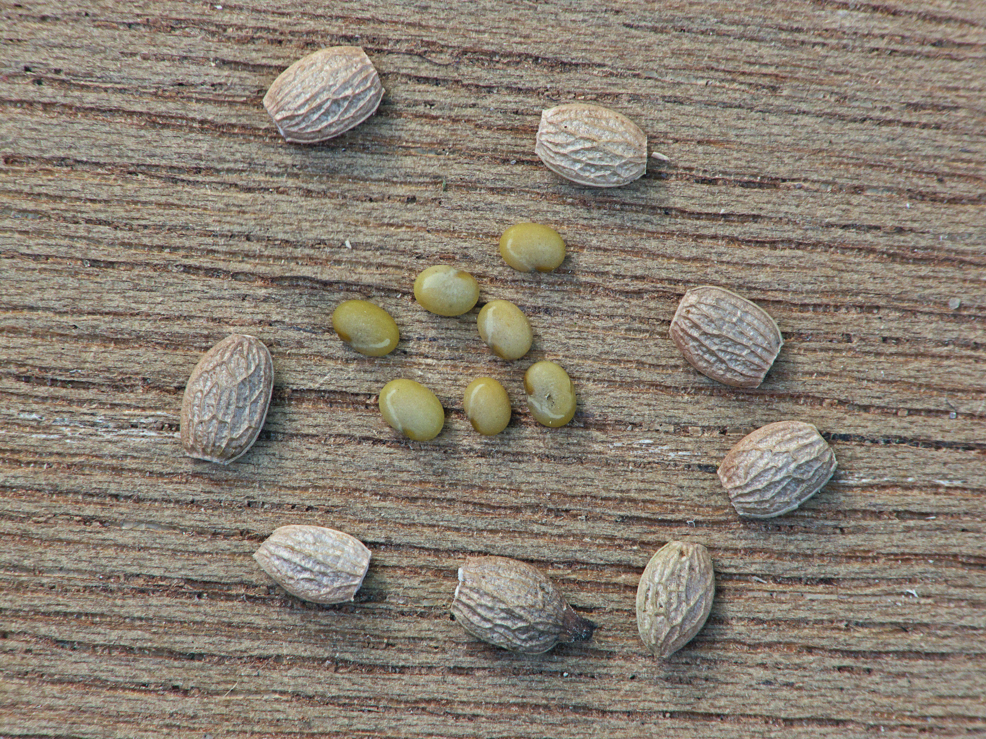 Ornithopus sativus, pods pieces (4 mm length), seeds (2.5 mm length)